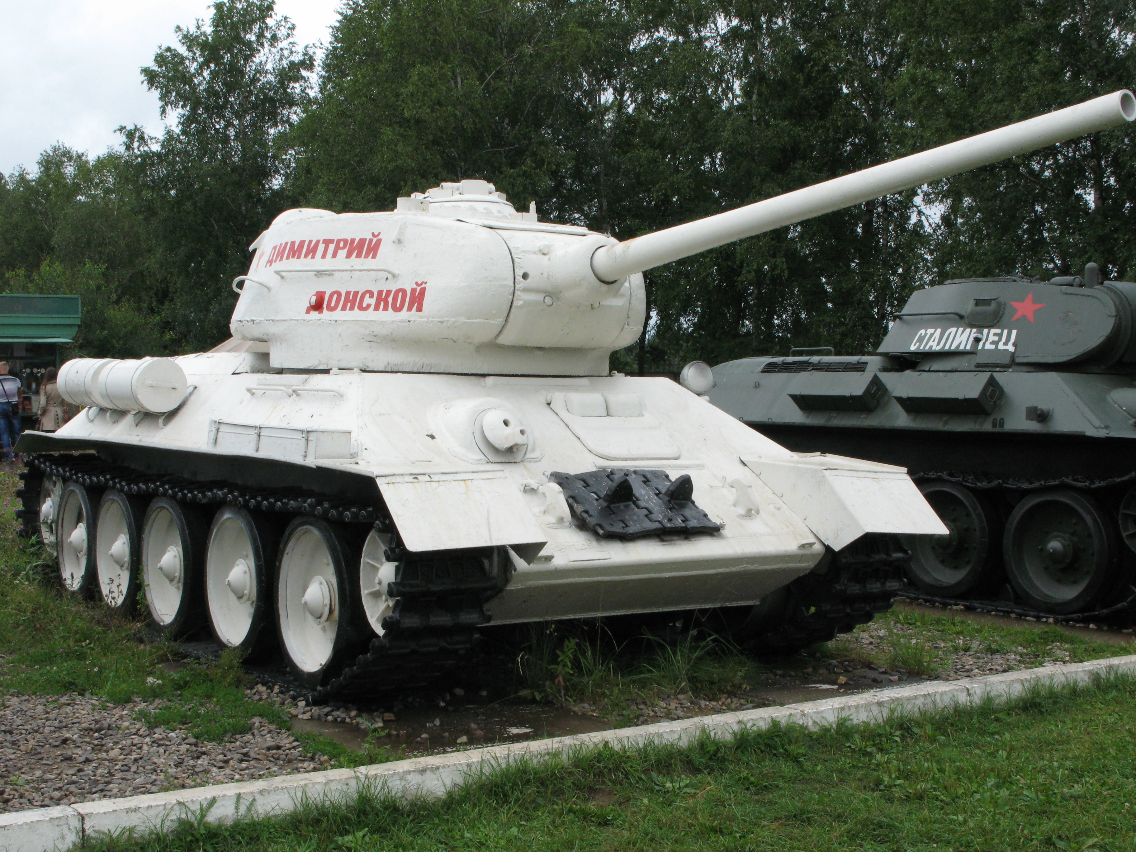 T-34-85 in Kubinka Tank Museum, Russia